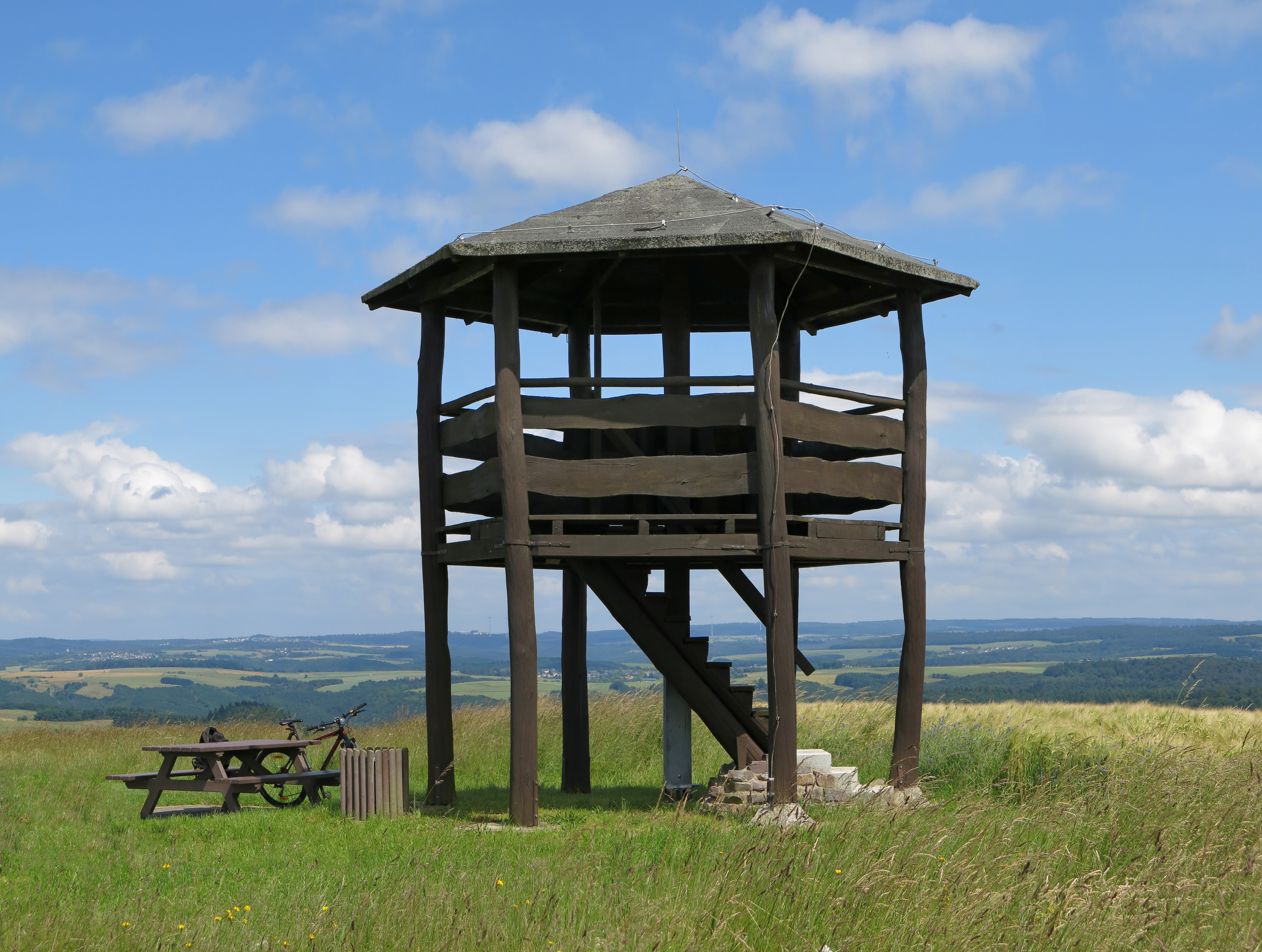 Lookout tower near Macken in Rhineland-Palatinate. See for a panoramic view from the tower.